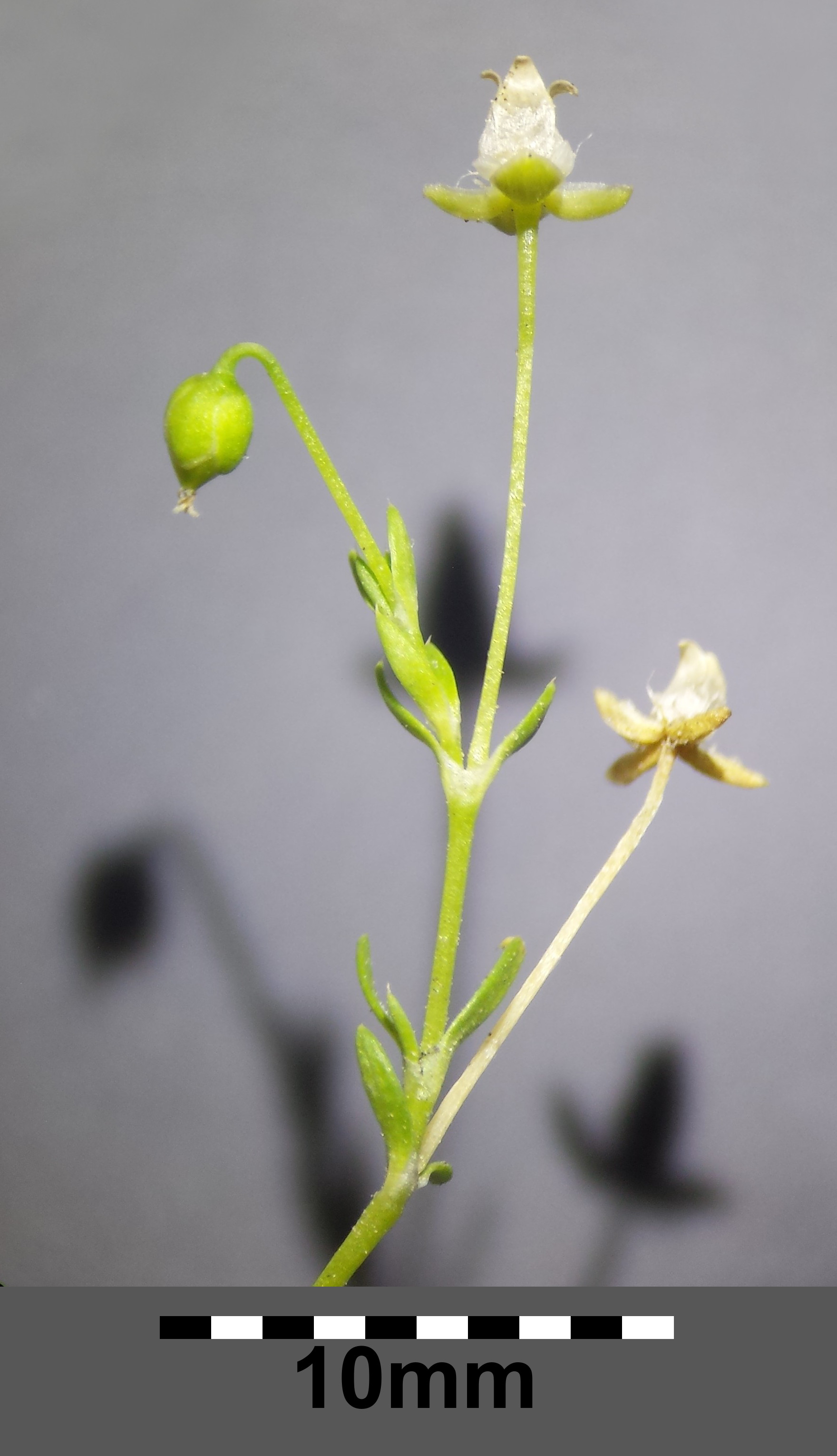 Stipe with leaves and flowers/fruits Taxonym: Sagina procumbens ss Fischer et al. EfÖLS 2008 ISBN 978-3-85474-187-9 Location: Rosenburg, district Horn, Lower Austria - ca. 260 m a.s.l. Habitat: gap in road surface